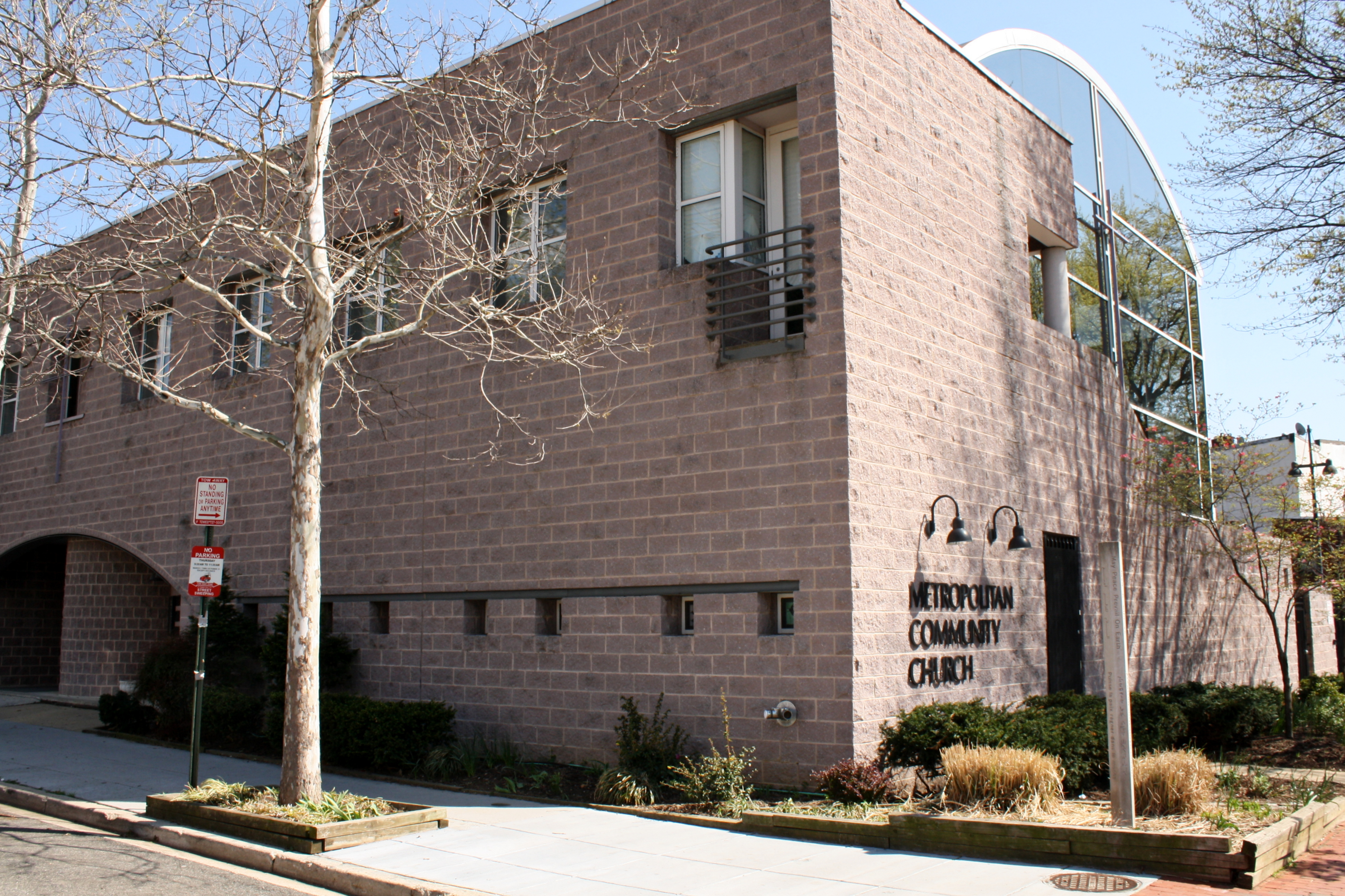 Metropolitan Community Church / Washington DC . 474 Ridge Street at 5th Street, NW, Washington DC . Sunday afternoon, 17 April 2011 . Elvert Xavier Barnes Photography Visit Metropolitan Community Church of Washington DC at